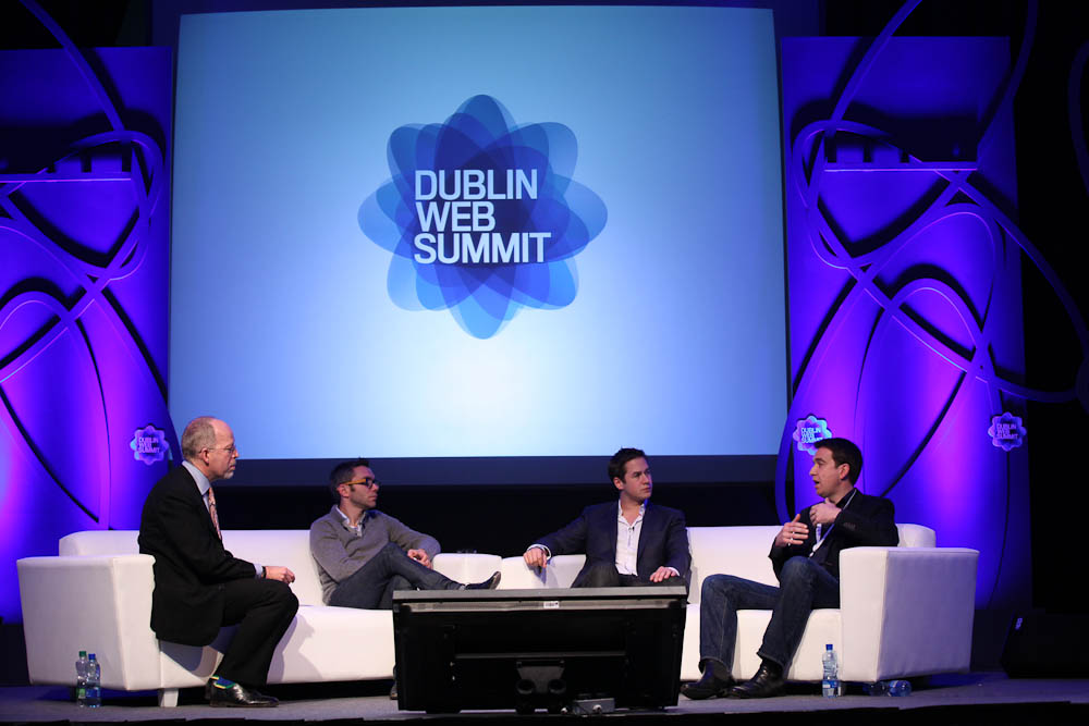 DUBLIN, October 2011: Pictured at the Dublin Web Summit at the RDS. Photo by Conor McCabe Photography.